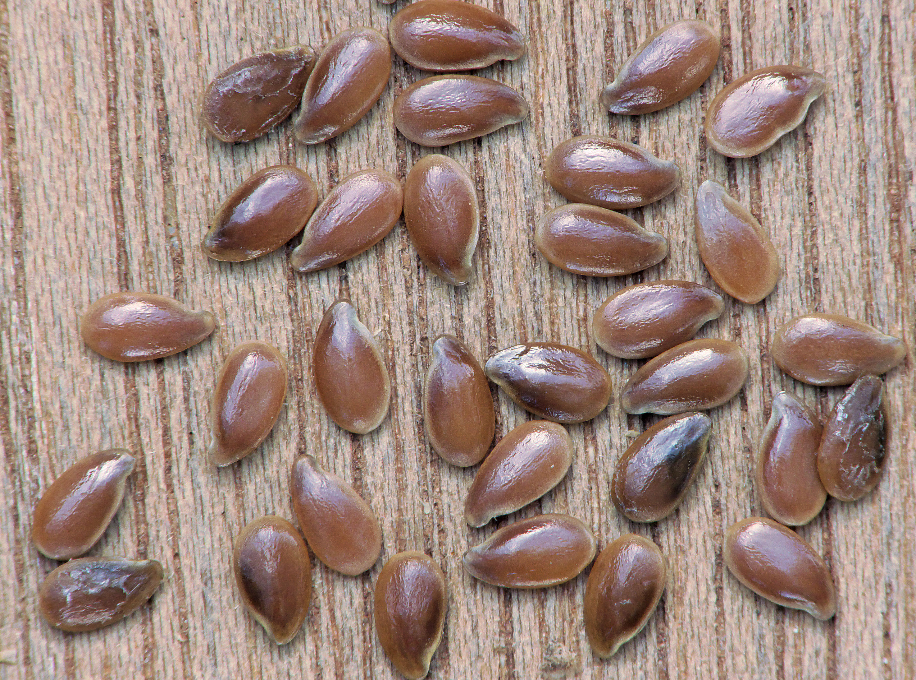 Linum usitatissimum seeds, 5 mm long